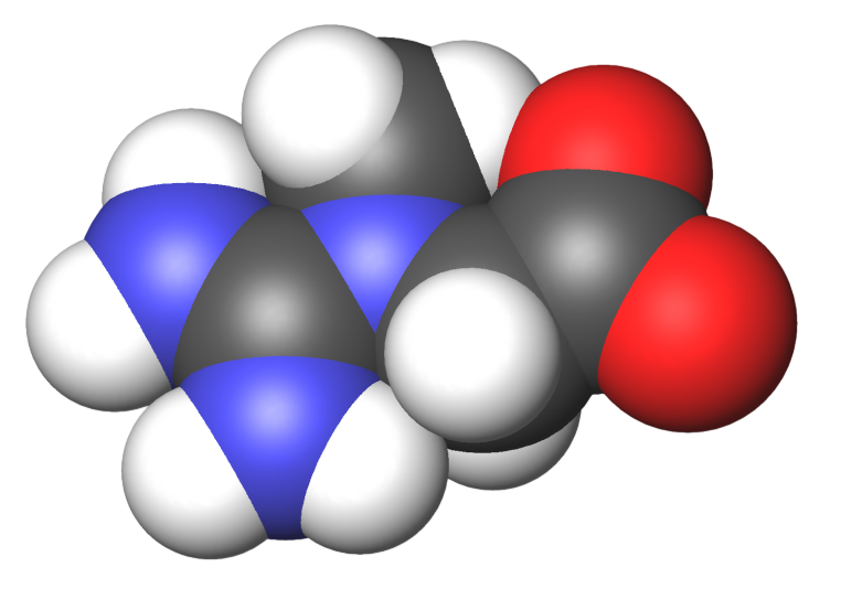 Creatine